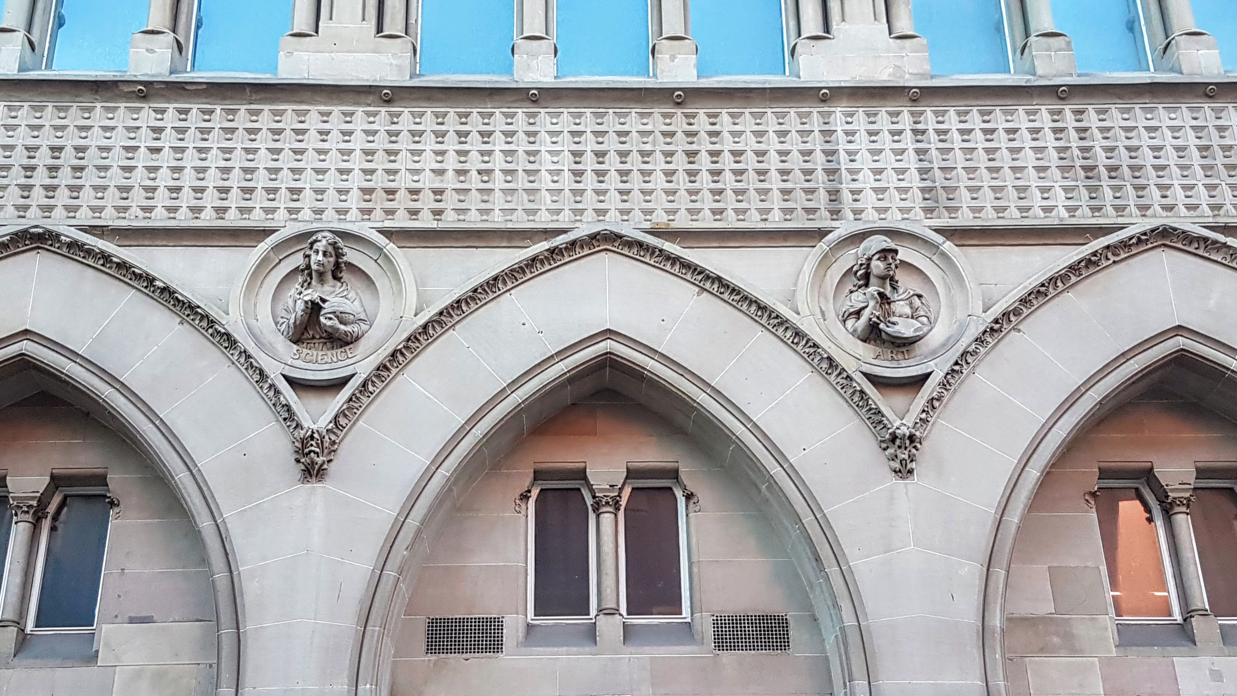 A relief in Glasgow exhibiting some of the industrial virtues of 19th century.